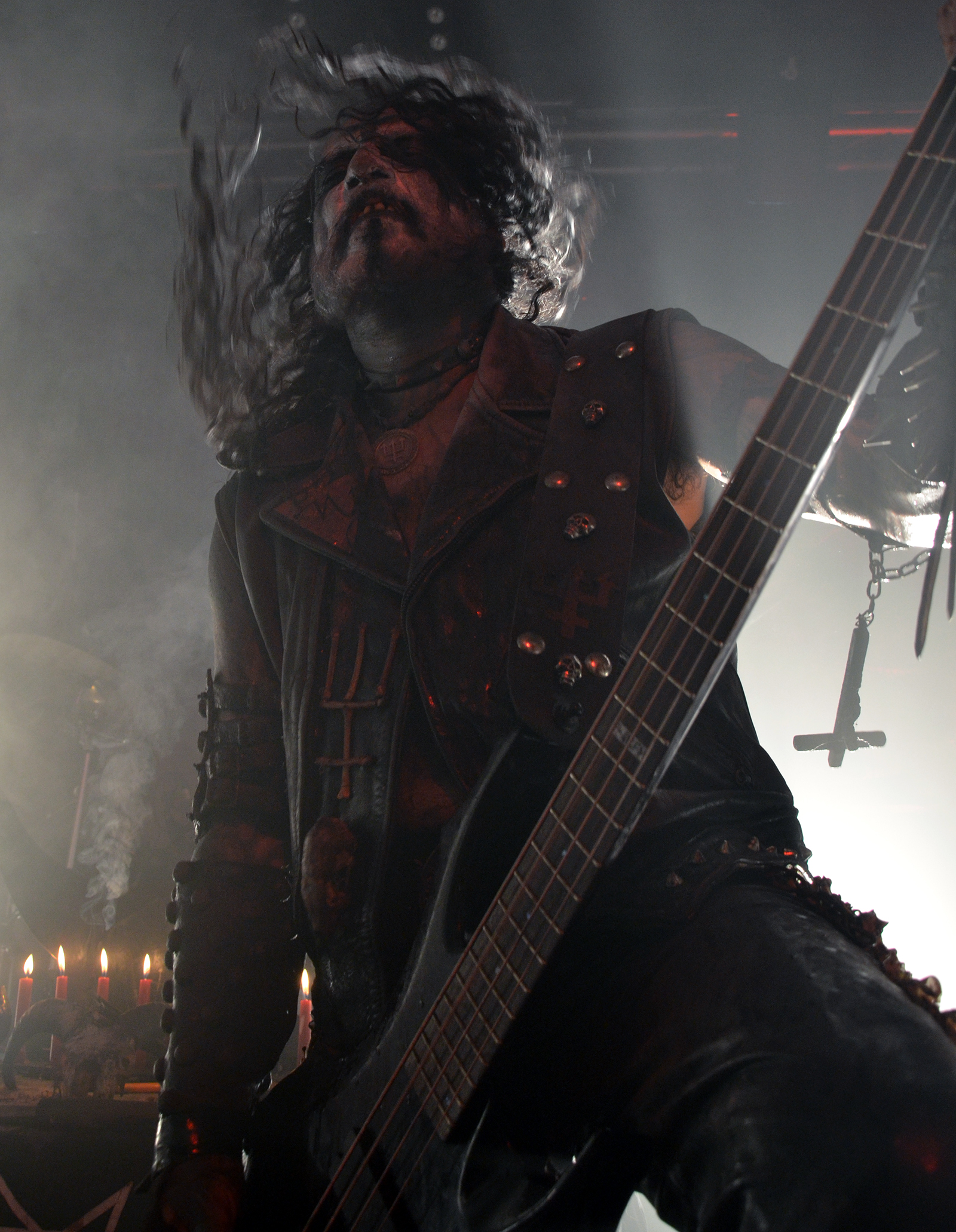 Watain performing at the Atelier des Môles in Montbéliard (France), on the 27th of March 2014 : Alvaro Lillo.